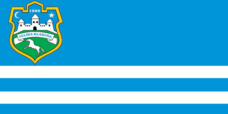 The Flag of Velika Kladusa according to many sources. Re-done for better quality.